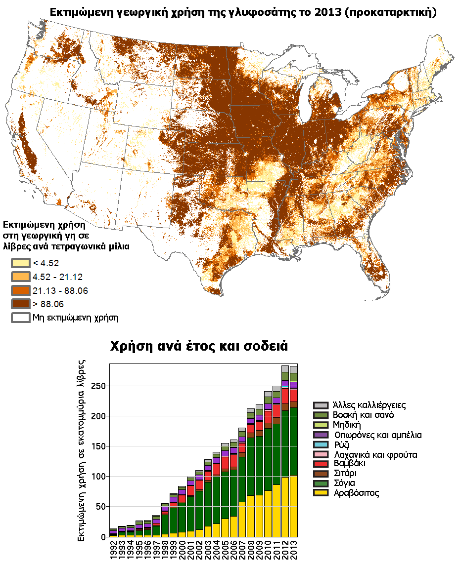 Translation of File:Glyphosate USA 2013.png to Greek